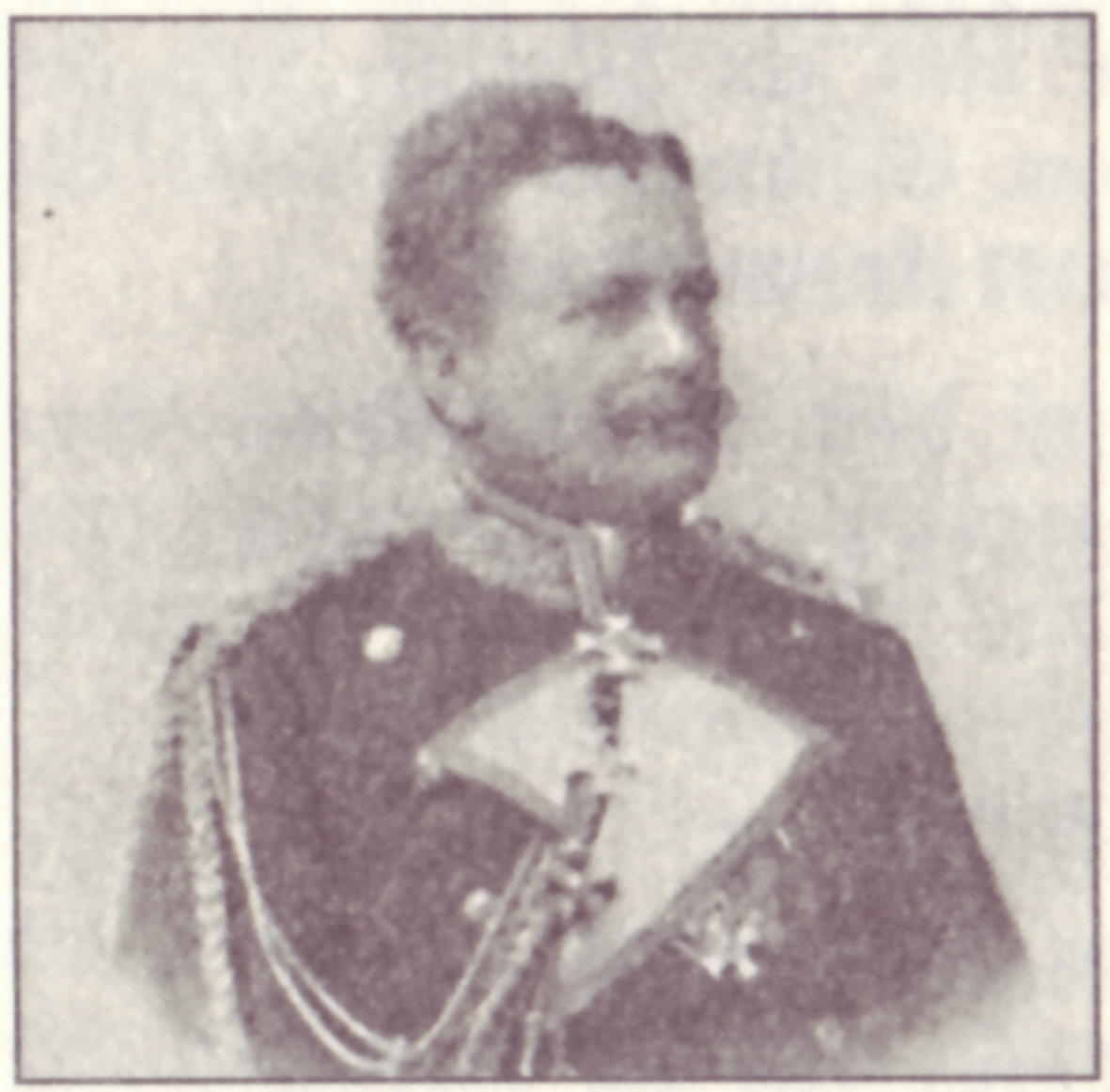 Wilhelm Büchsel (1848-1920), admiral in the Imperial German Navy